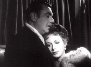 Cropped screenshot of George Brent and Hedy Lamarr from the trailer for the film Experiment Perilous